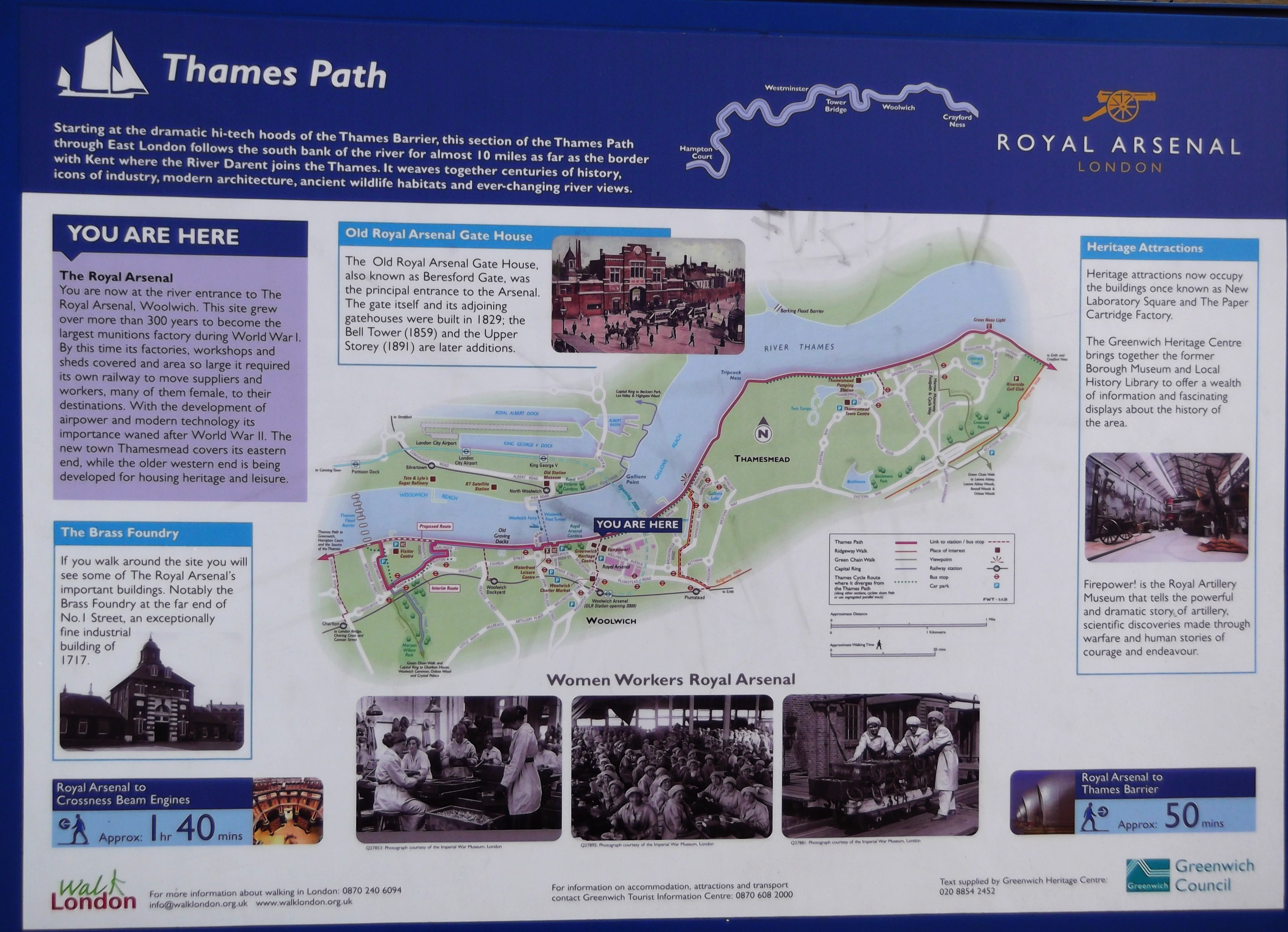 Thames Path Woolwich London 311